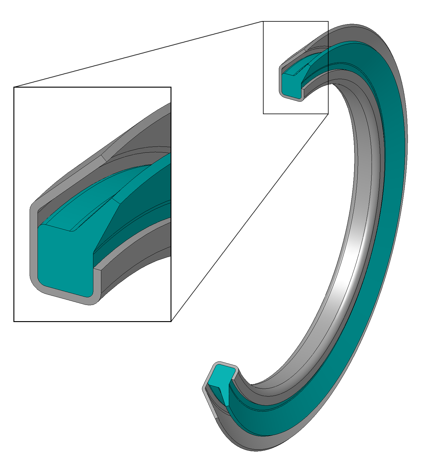 Gamma seal, type RB with secional view and detail.